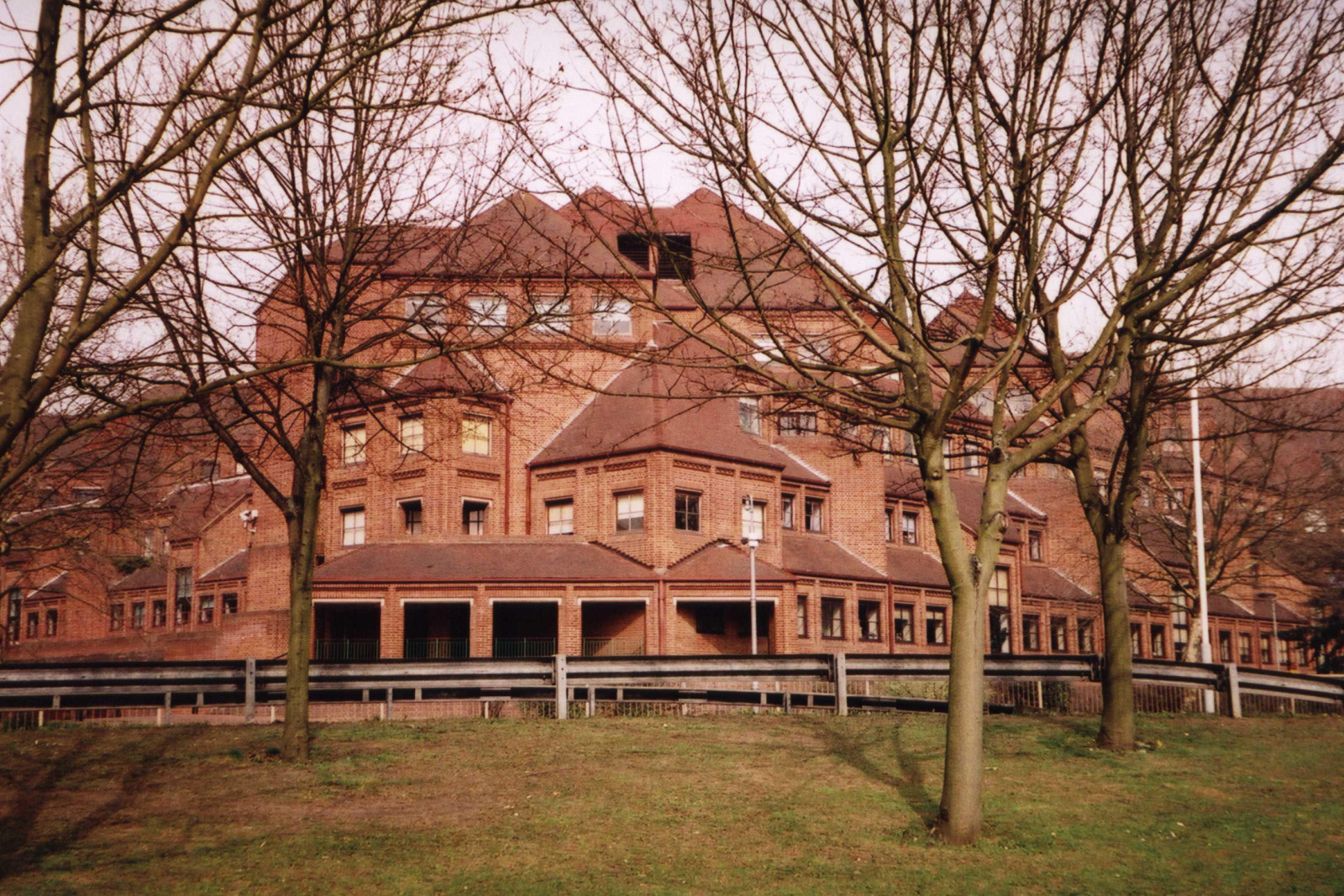 Civic Centre, High Street, Uxbridge This shows the staff entrance to the Civic Centre offices, home to the London Borough of Hillingdon. LBH came into being in 1965 when local government in London was re-organised. Originally this was Middlesex. To my mind it is only in London by dint of administrative convenience. Uxbridge doesn't have a London postcode or a London telephone number prefix. Parts of it feel much more like the neighbouring counties of Buckinghamshire and Hertfordshire.